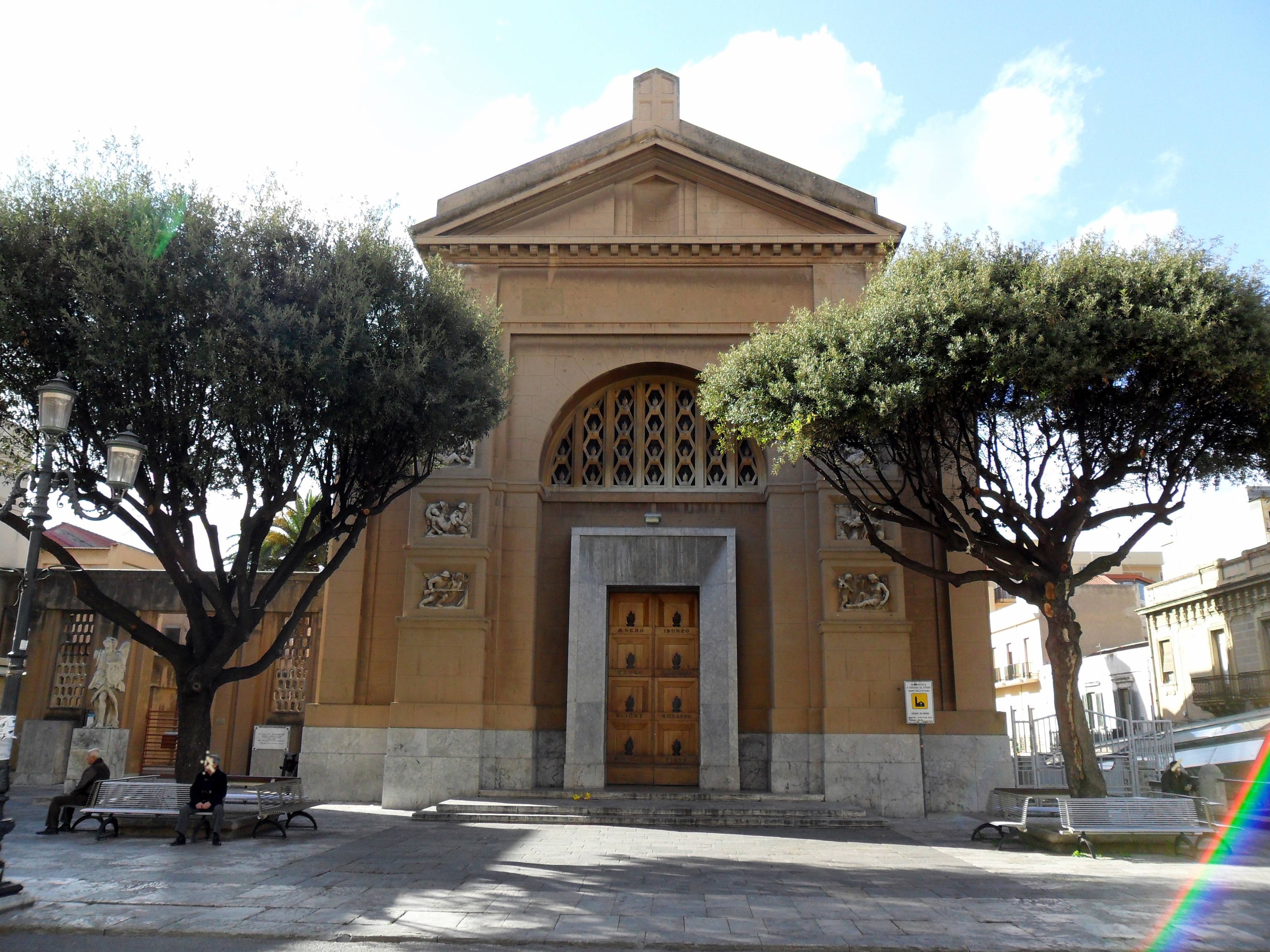 St.George's Church